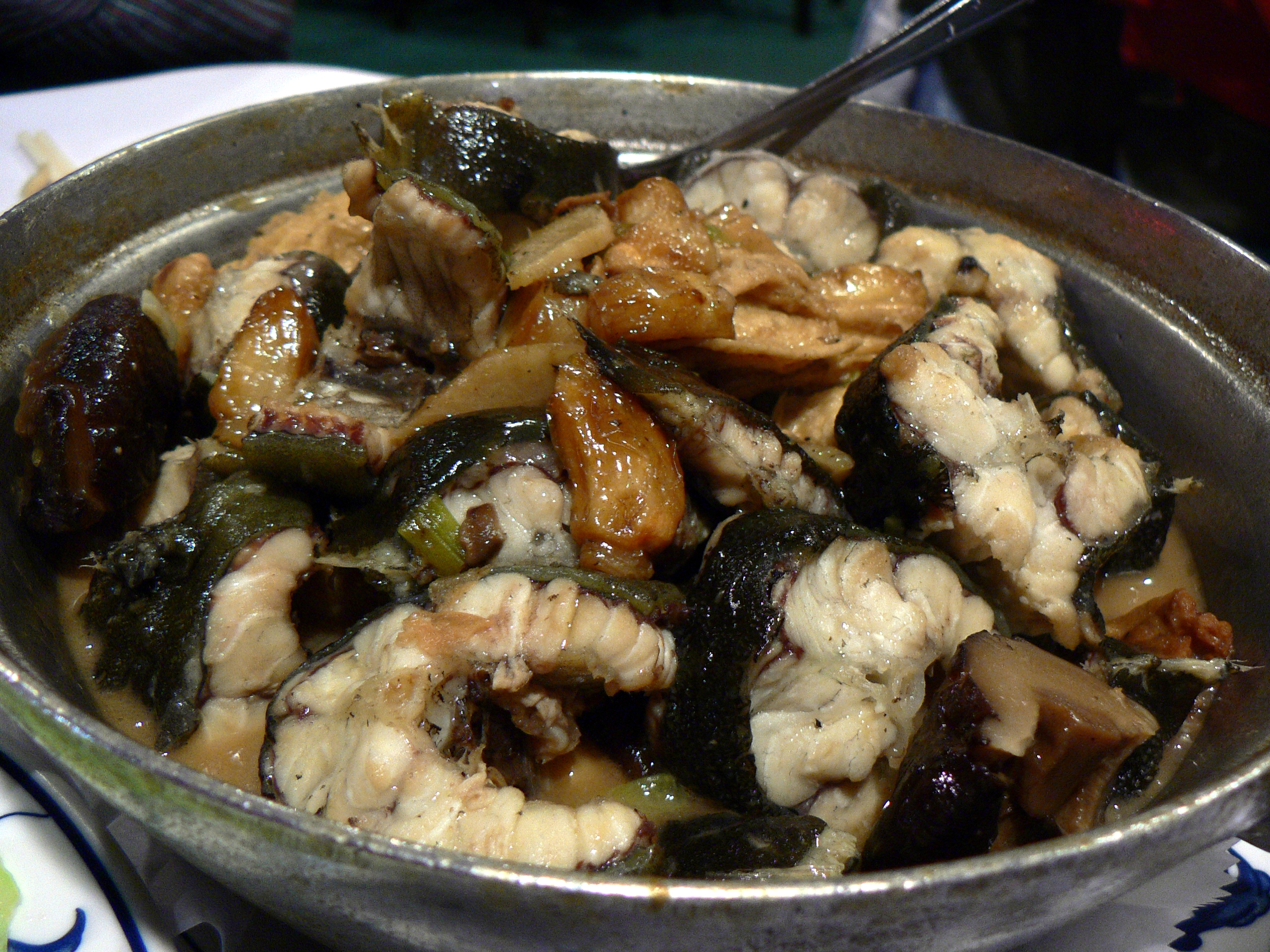 I've had plenty of eel but only ever in the Japanese "barbecue" style. This was very different. Excellent.